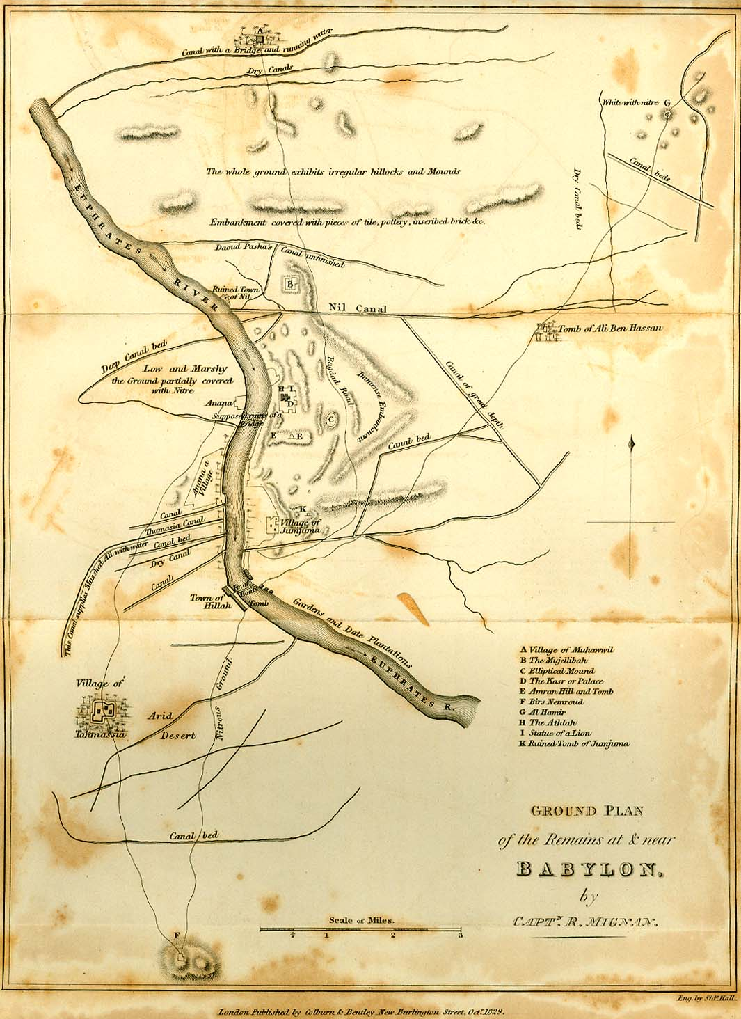 Map of the site of Babylon prior to its excavation later in the 19th century.